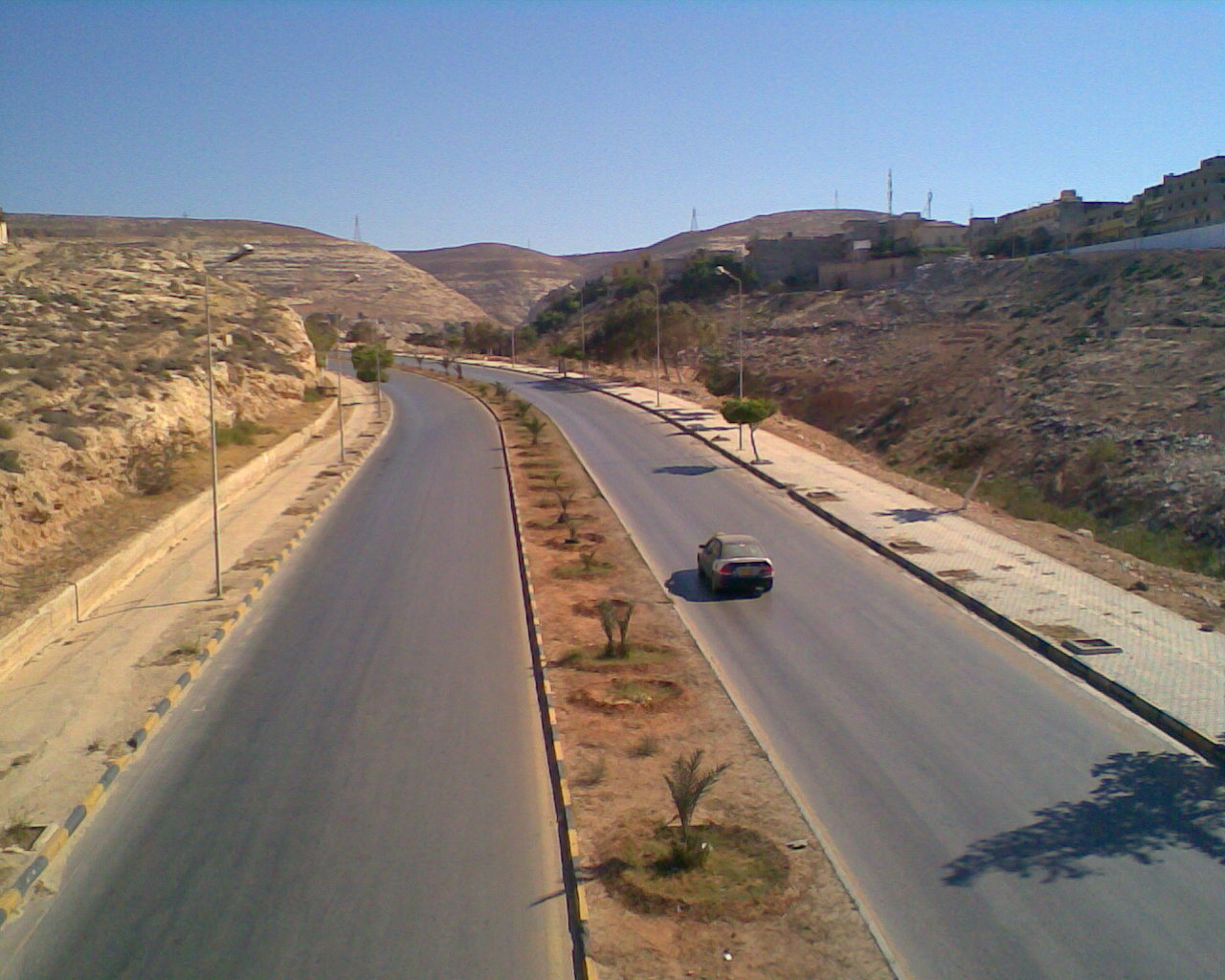 The eastern gateway of the Libyan city of Derna.